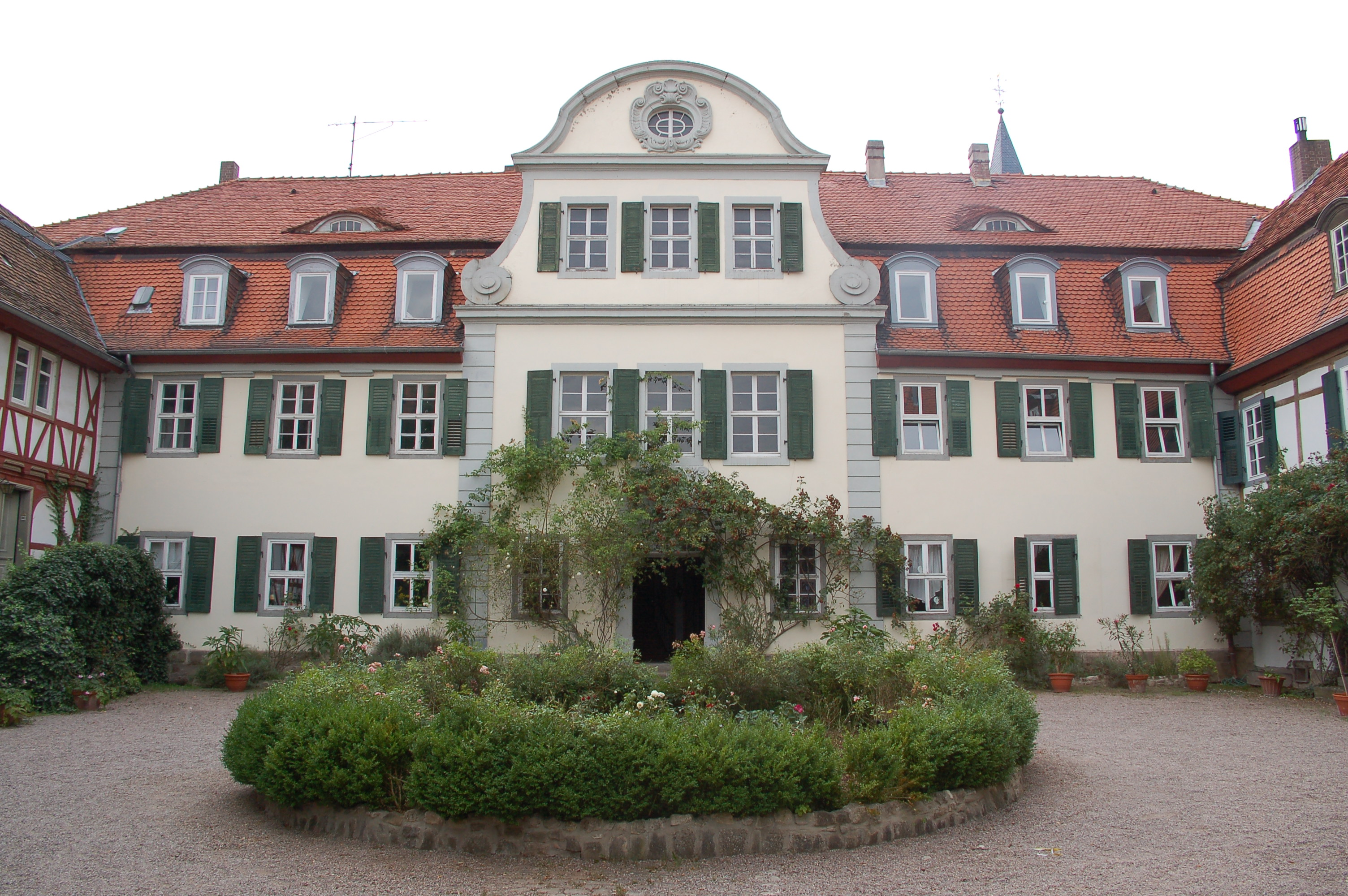 palace in Jestädt, Hesse, Germany ("Schloss Jestädt")